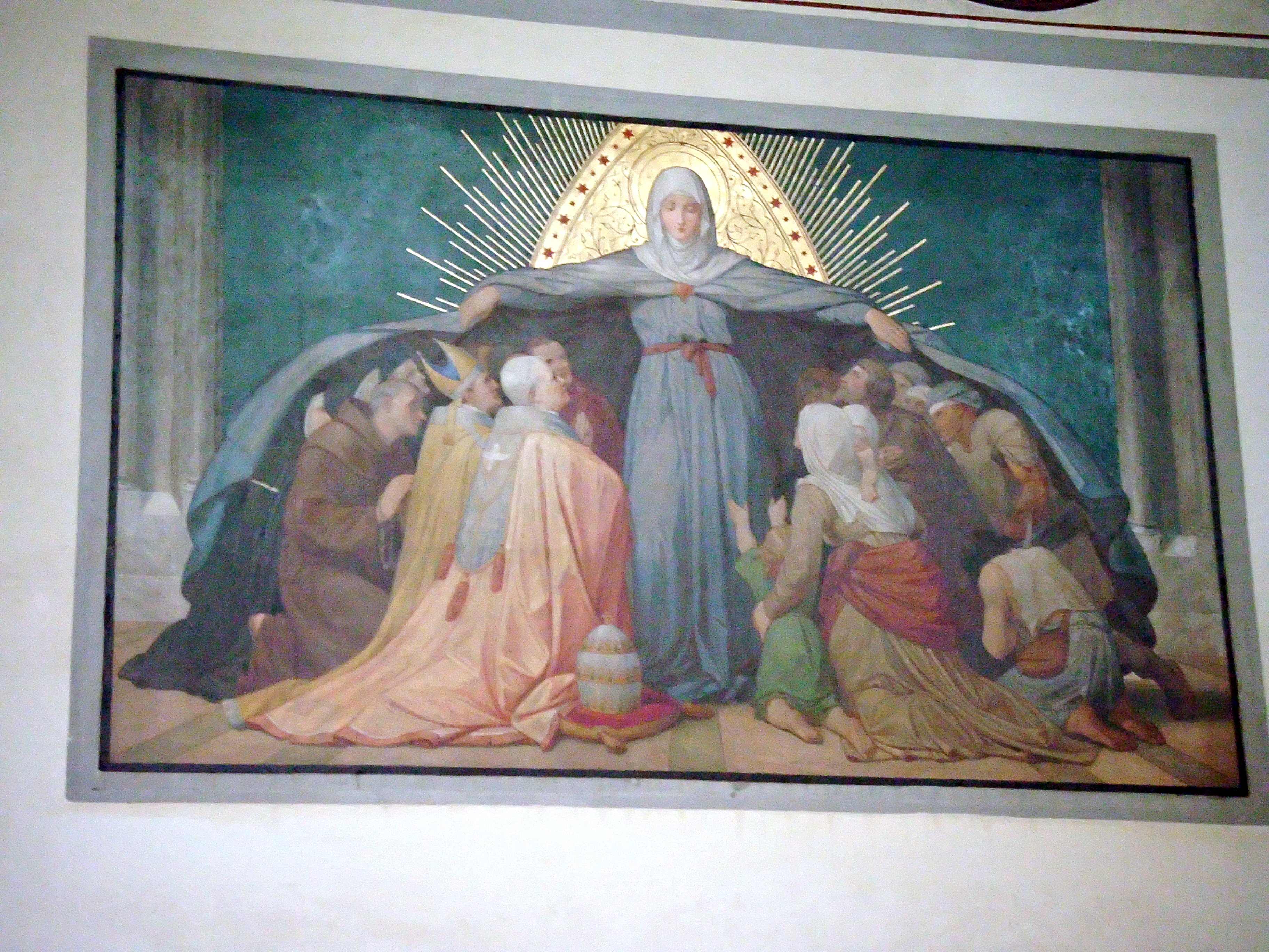 Schloss Löwenstein, Kleinheubach, Schutzmantelmadonna von Ferdinand Becker (1846-1877) in der fürstlichen Hauskapelle